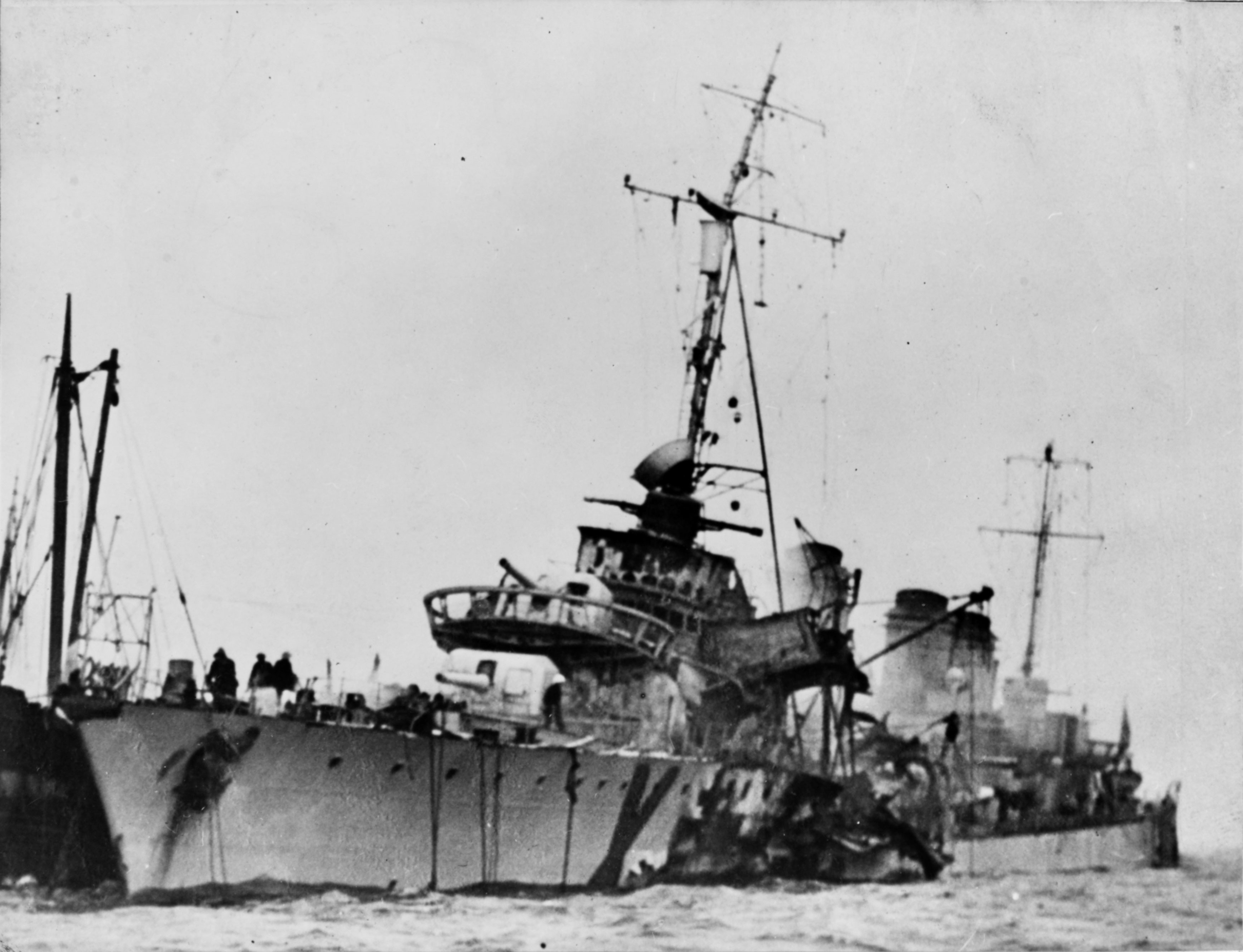 The French destroyer Maillé-Brézé on fire and sinking in Greenock, Scotland